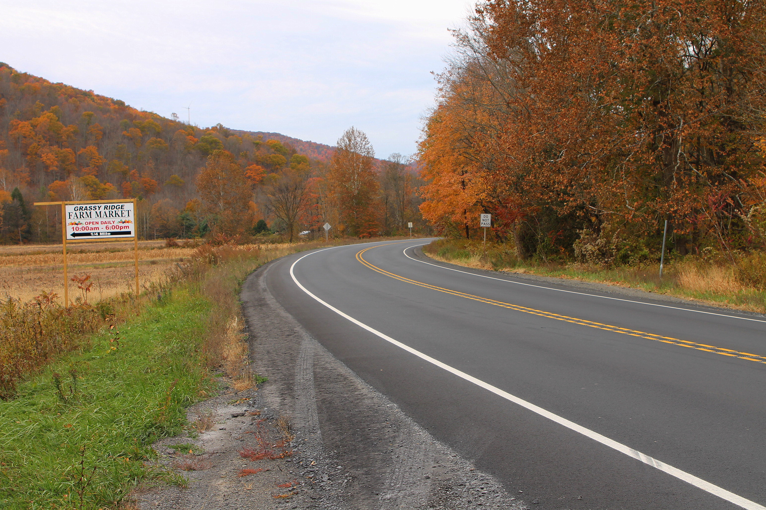 Pennsylvania Route 309 in Monroe Township, Wyoming County, very close to its northern terminus.